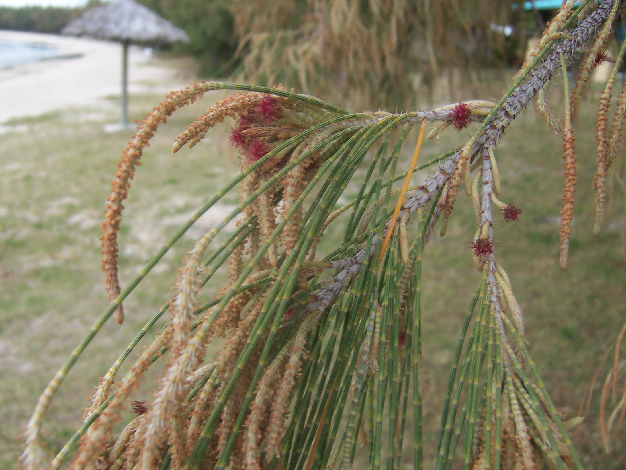 Casuarina equisetifolia (Casuarinaceae) : male and female flowers